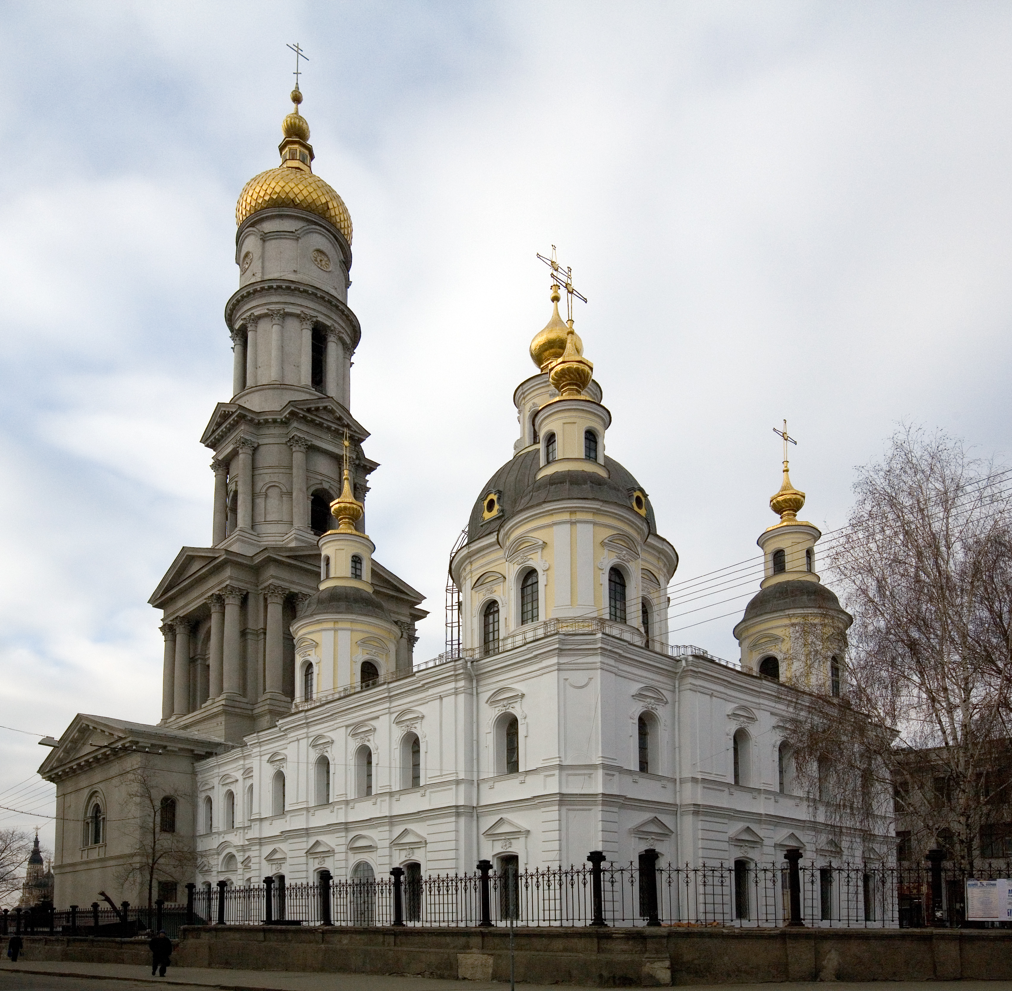 Uspensky Cathedral, Kharkov. Church built in 1771 - 1774 in Baroque style. The Bell Tower built in 1821-1844 in Neoclassical style.